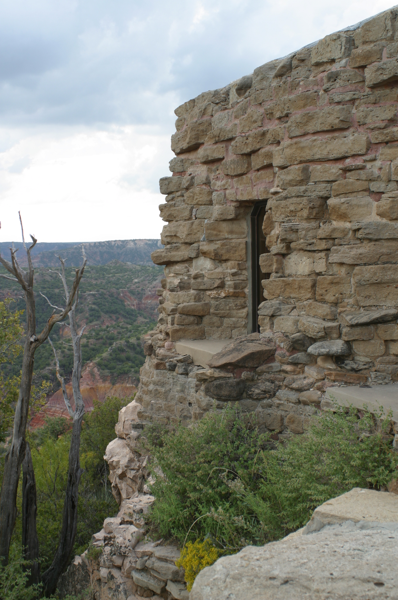 Palo Duro Canyon Interpretive Center (formerly El Coronado Lodge) built by the Civilian Conservation Corps.